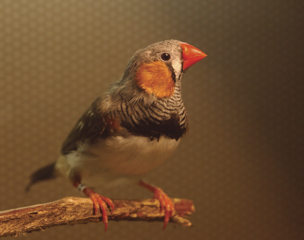 The vocal explorations of young zebra finches shed light on the neural basis of learning motor tasks.